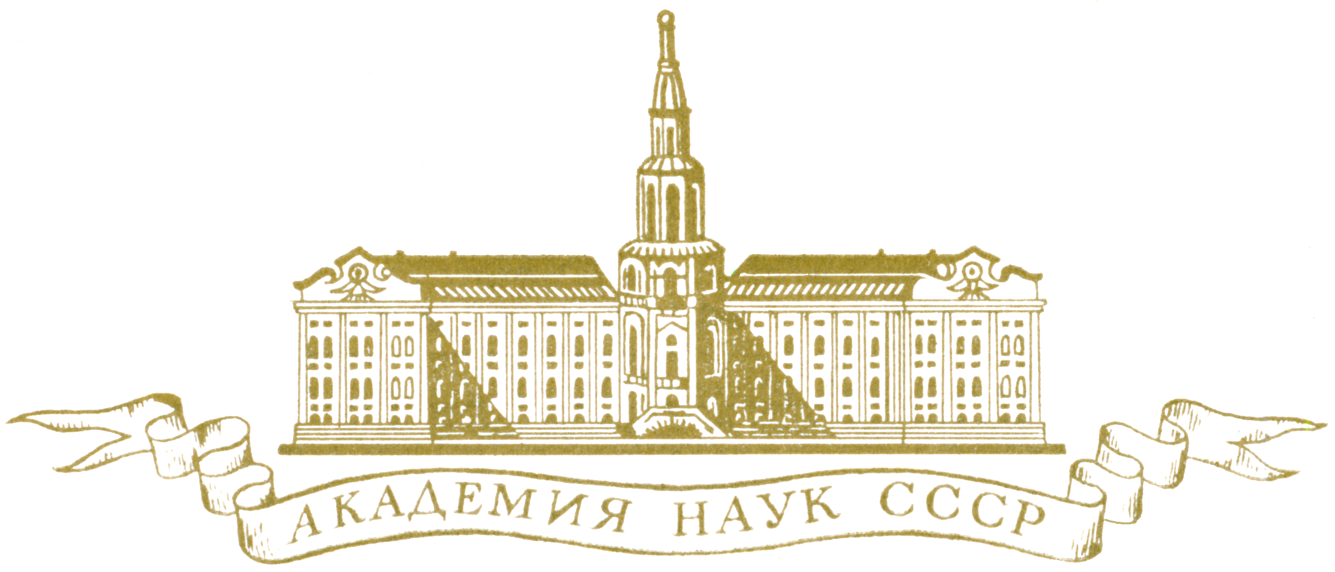 Academy of Sciences of the USSR logo